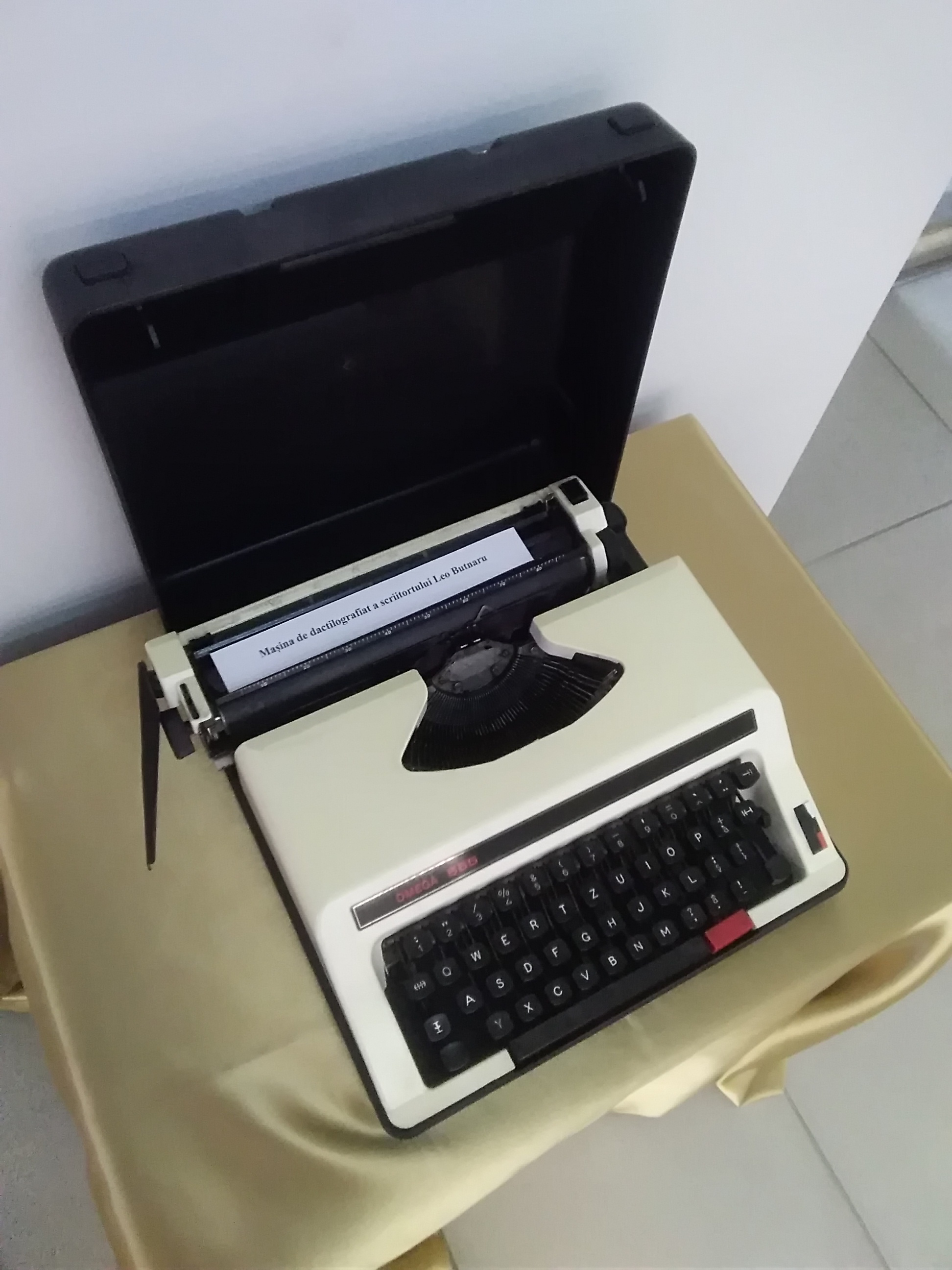 Typewriter of Moldovan writer Leo Butnaru, exhibited at the National Library of Moldova